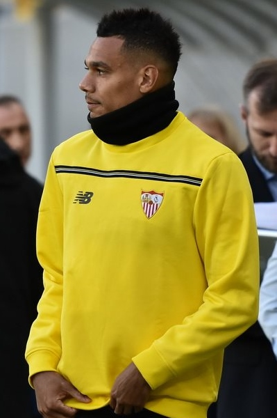 Timothée Kolodziejczak